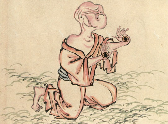 Teme-bozu (the ghost of a blind man, with his eyes on his hands) from the Hyakki-Yagyō-Emaki